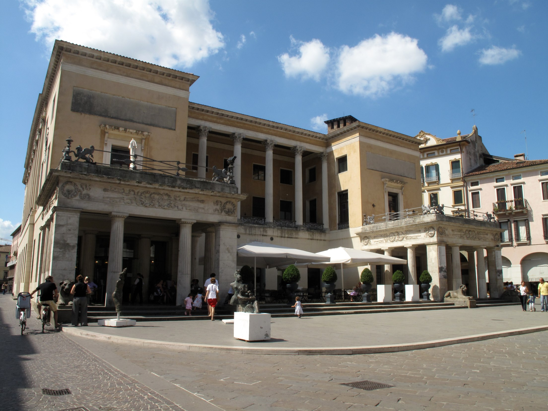 North side of Caffè Pedrocchi; view from Piazzetta Cappellato Pedrocchi